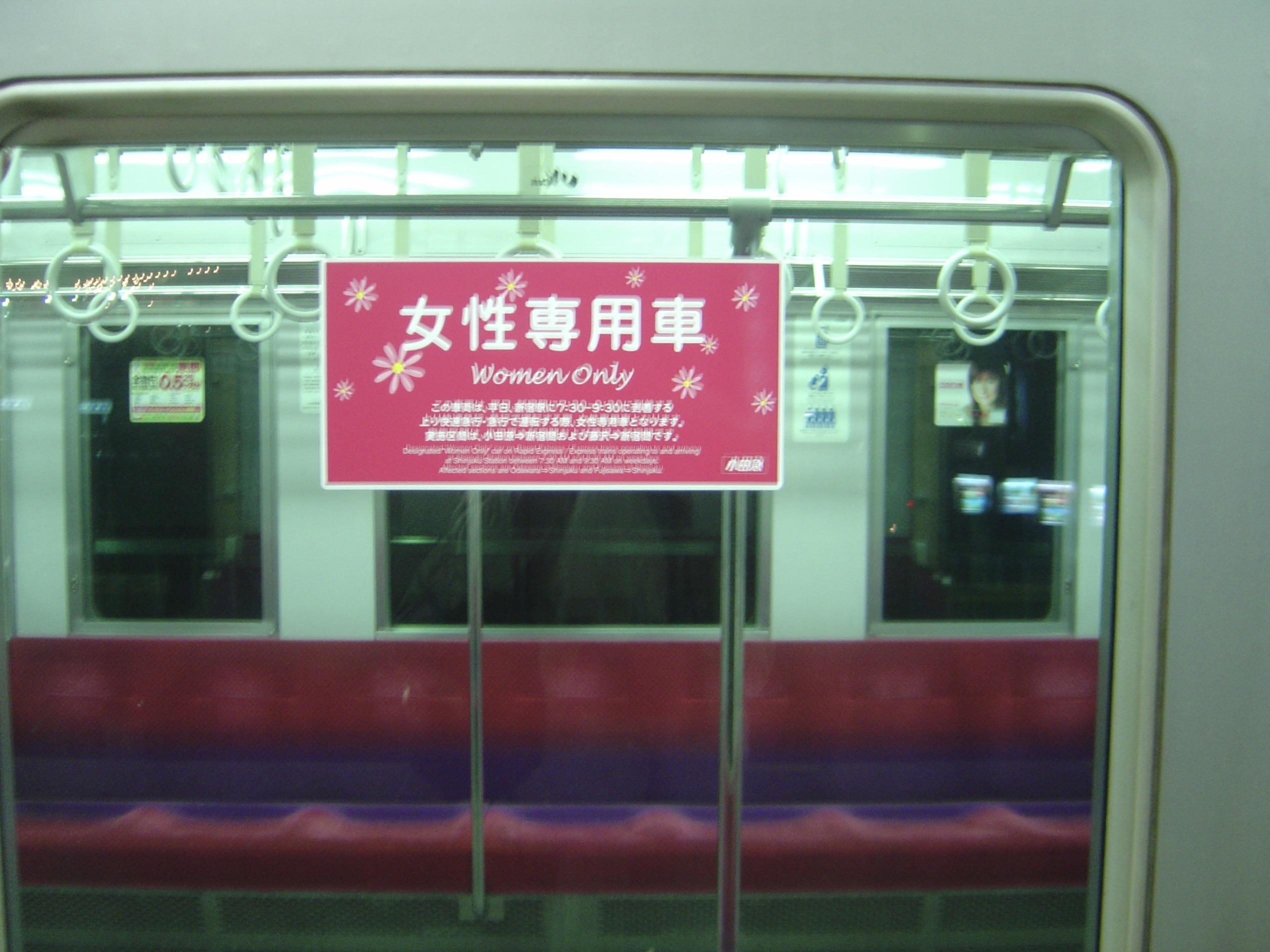 "Women-only" coach in a Japanese train during rush hour (Odakyu Electric Railway, Hakone)